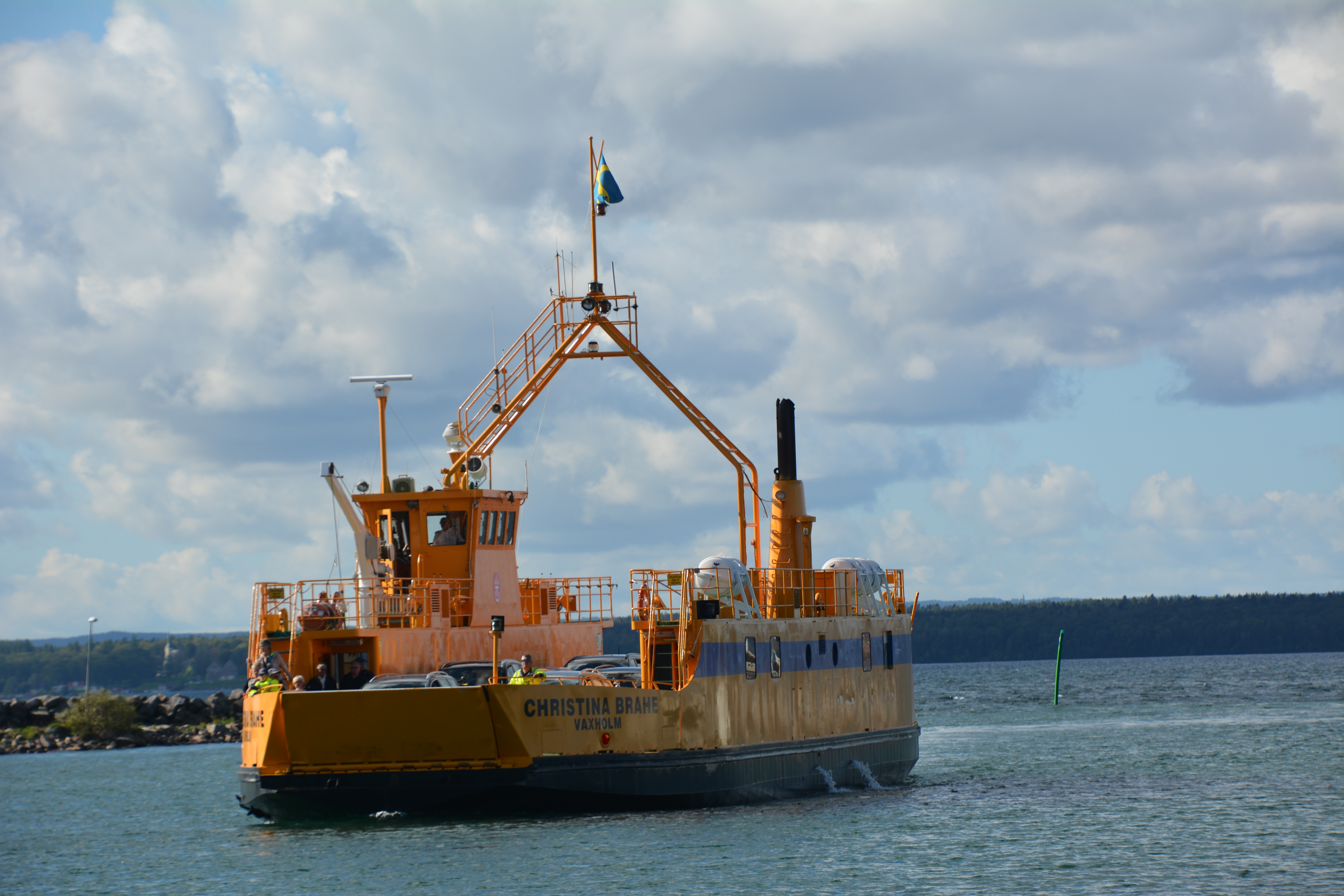 Ferry M/S Christina Brahe between Gränna and Visingsö